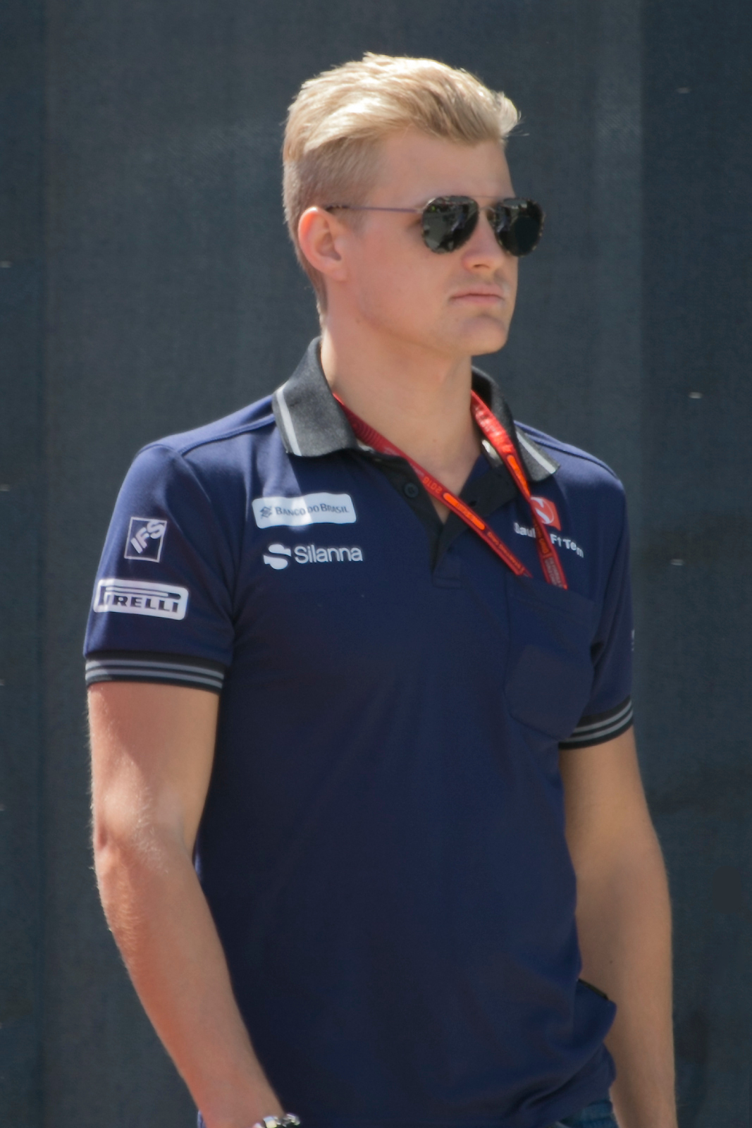 Marcus Ericsson at the 2016 Bahrain Grand Prix